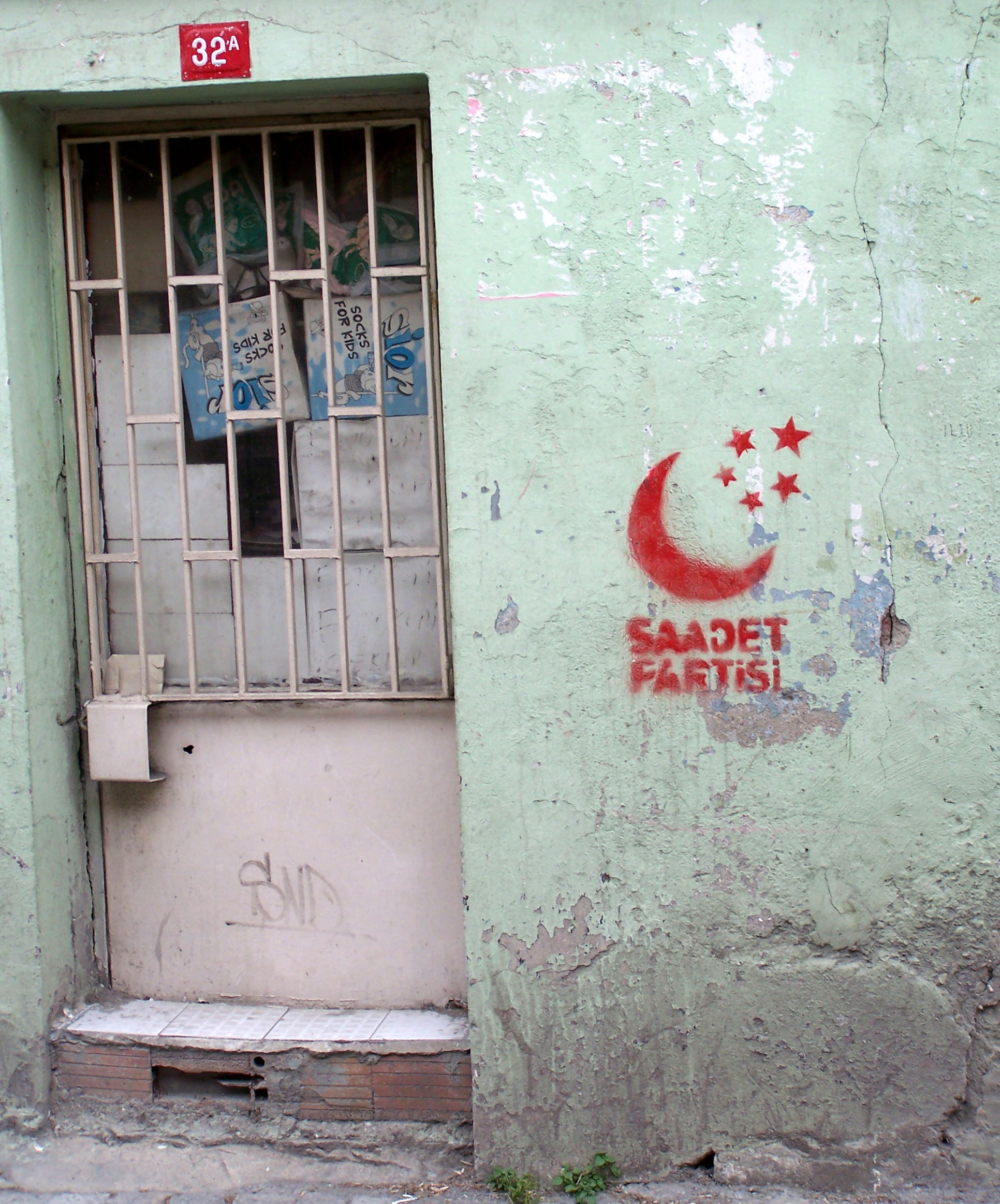 Logo of Islamist Saadet Partisi (SP, Felicity Party) painted on a wall near Zalmahmut Paşa Camii in Eyüp